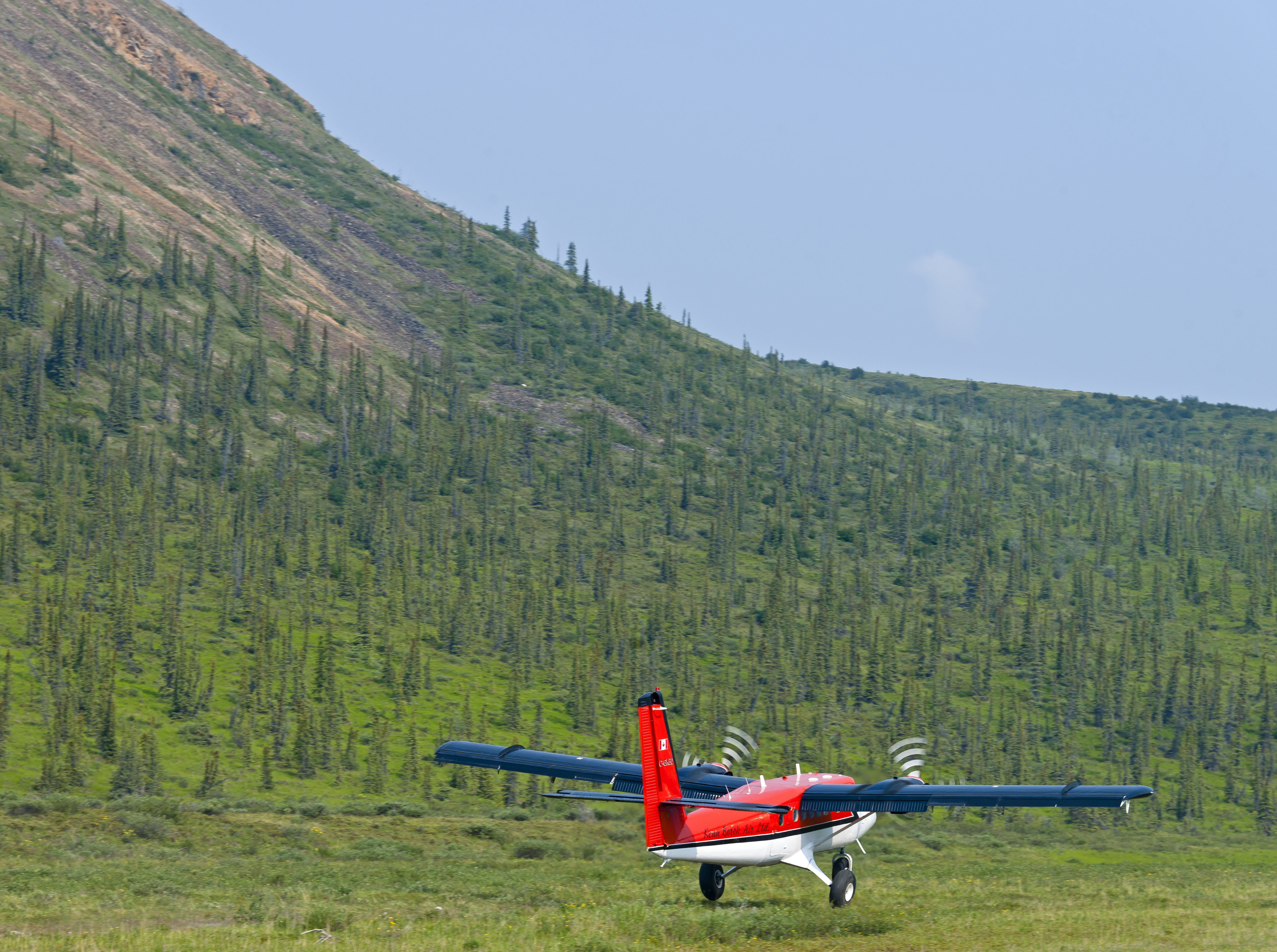 A Kenn Borek Air Twin Otter takes off from a landing strip deep in Canada's Ivvavik National Park after dropping off a group of whitewater rafters on the banks of the nearby Firth River for a 12-day trip to the Beaufort Sea